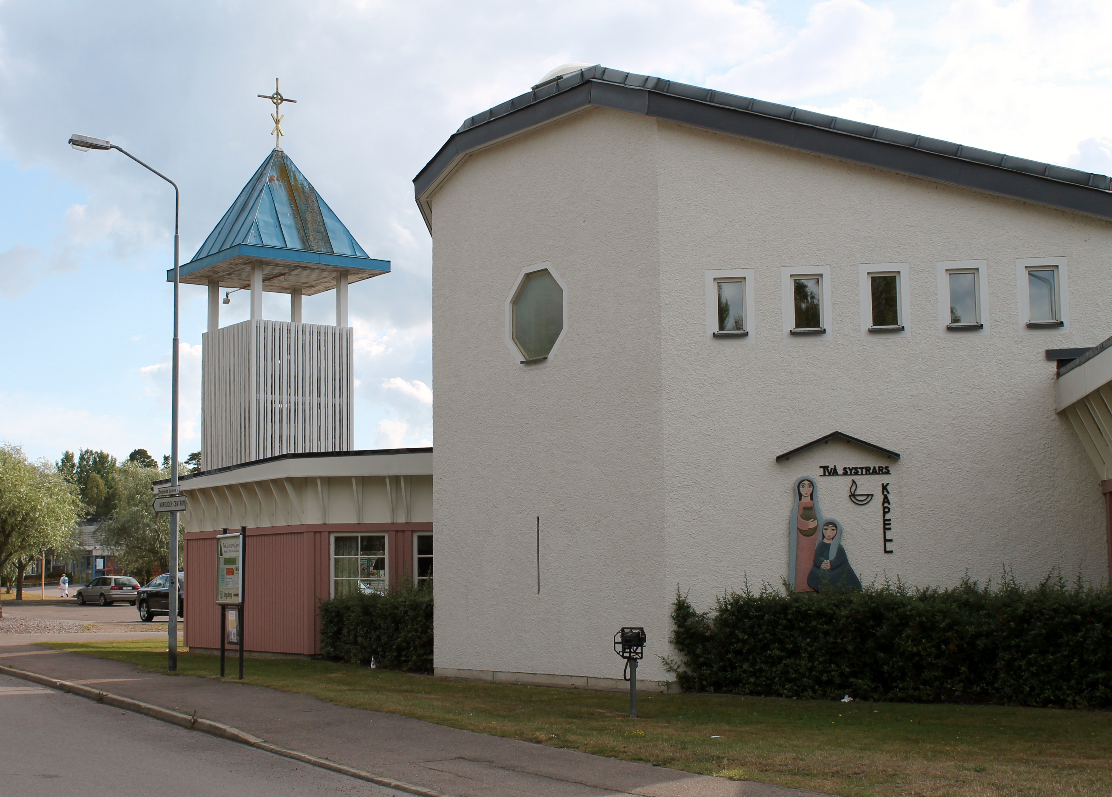 Two sisters' chapel, Kalmar.